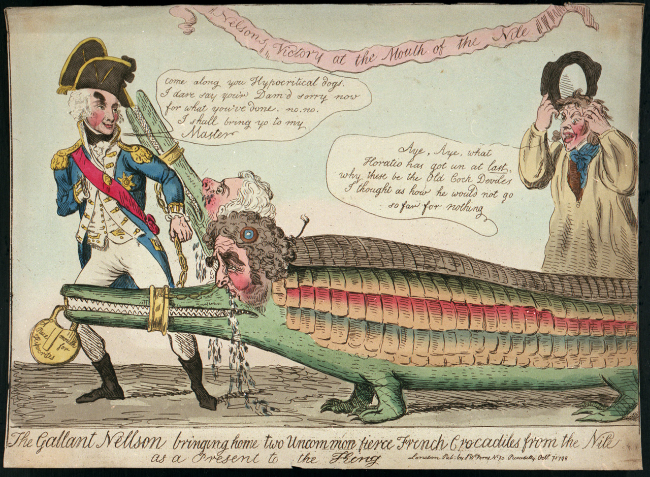 The Gallant Nellson bringing home two Uncommon fierce French Crocadiles from the Nile as a Present to the King: This satirical print is mocking British politicians Charles Fox and Richard Sheridan who celebrated Nelson's victory at the Battle of the Nile despite being, at least in part, pro-republican.